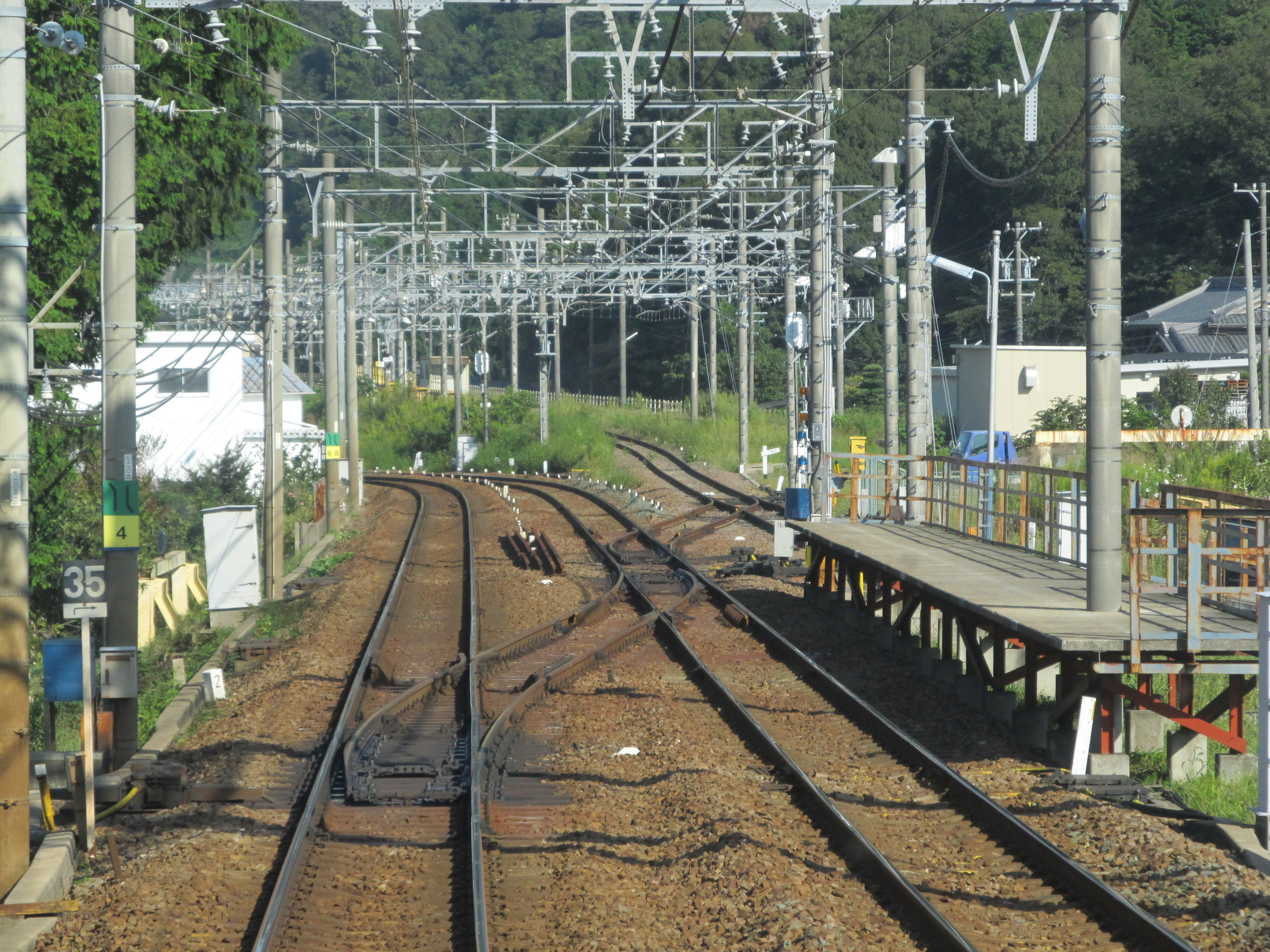 Nagoya Railroad Nagoya Main Line Maigi Signal Box